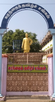 Karanthaitamilsangam கரந்தைத்தமிழ்ச்சங்கம்